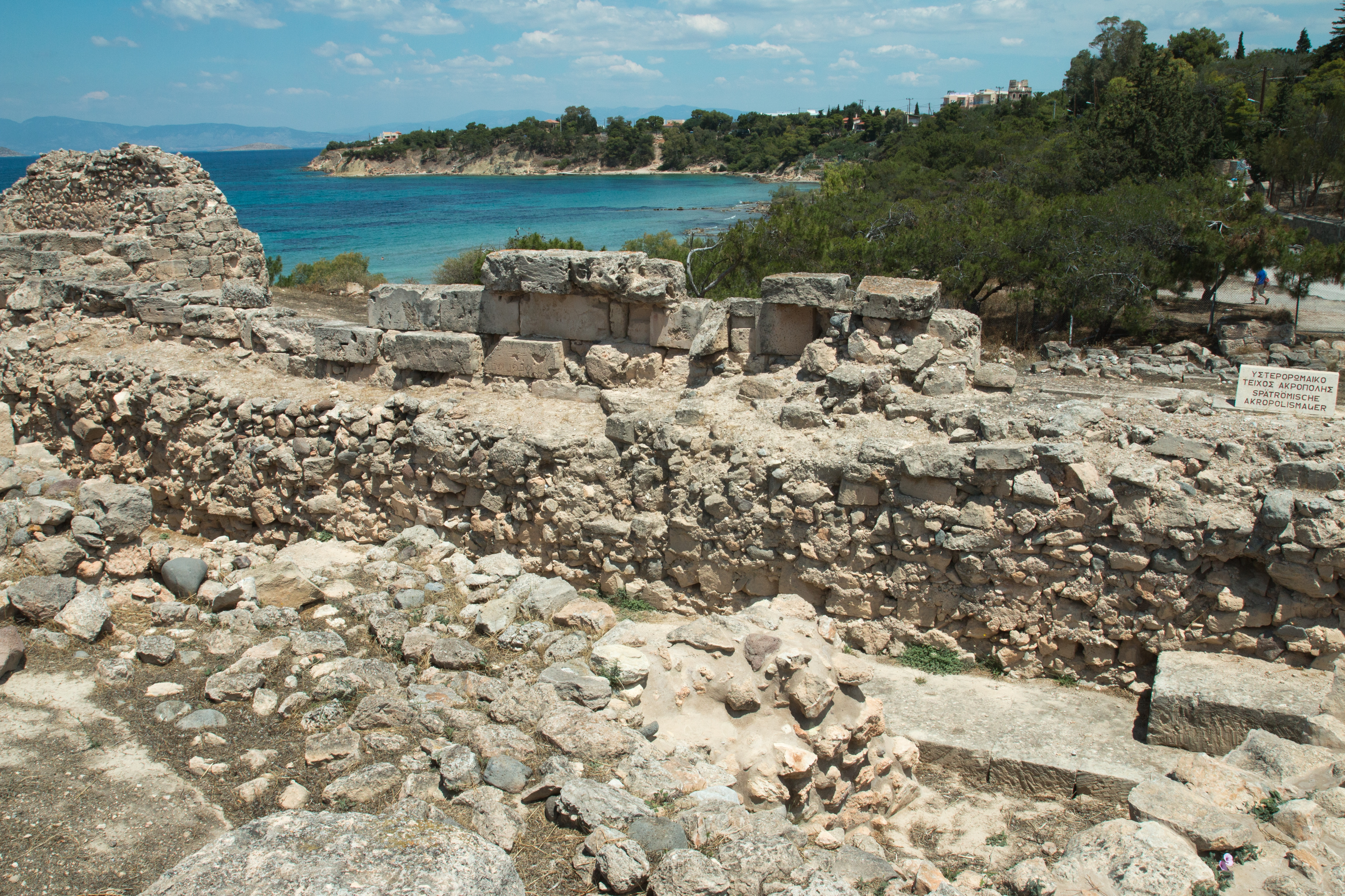 Masonry of the acropolis of the Late Roman period. The wall uses older material, sometimes with inscriptions. Archaeological site at Kolona, Aegina.